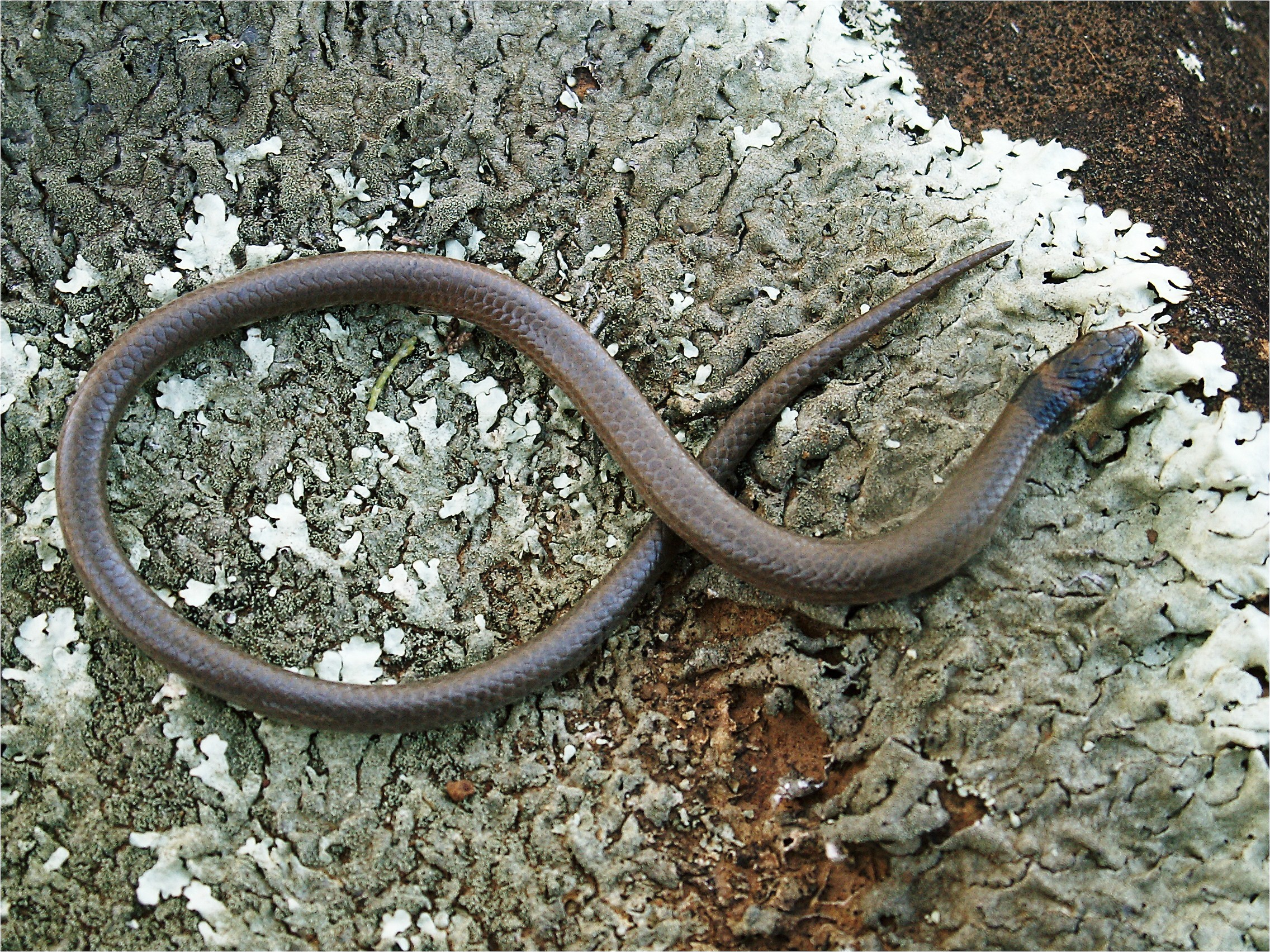 Excitable delma. Photography by Michael J. Murphy.